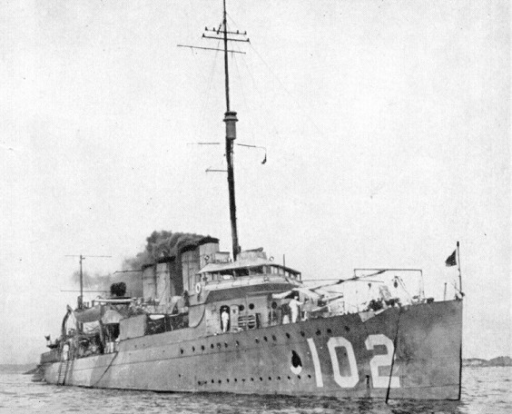 The U.S. Navy light minelayer USS Mahan (DM-7) at anchor during the early 1920s, following conversion to a light minelayer. The Mine Force emblem is painted on her bow. Though redesignated "DM-7" in July 1920, she probably continued to wear her destroyer number "DD-102" for some years thereafter.